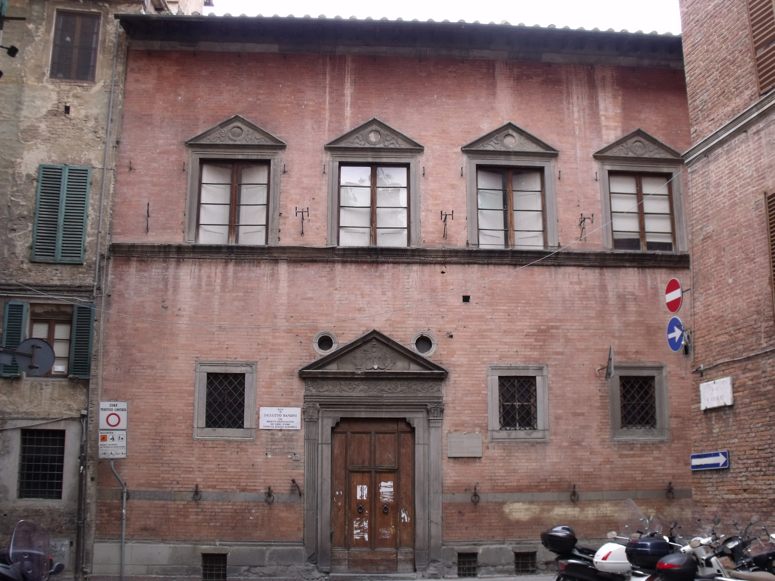 Palazzo Bandini Piccolomini in Siena, Via Sallustio Bandini 25, Work of Antonio Federighi